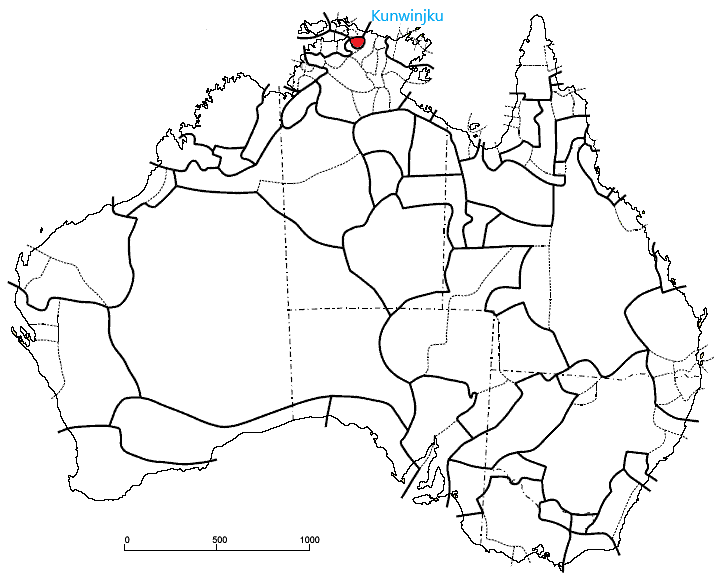 Map showing location of Kunwinjku language in Australia